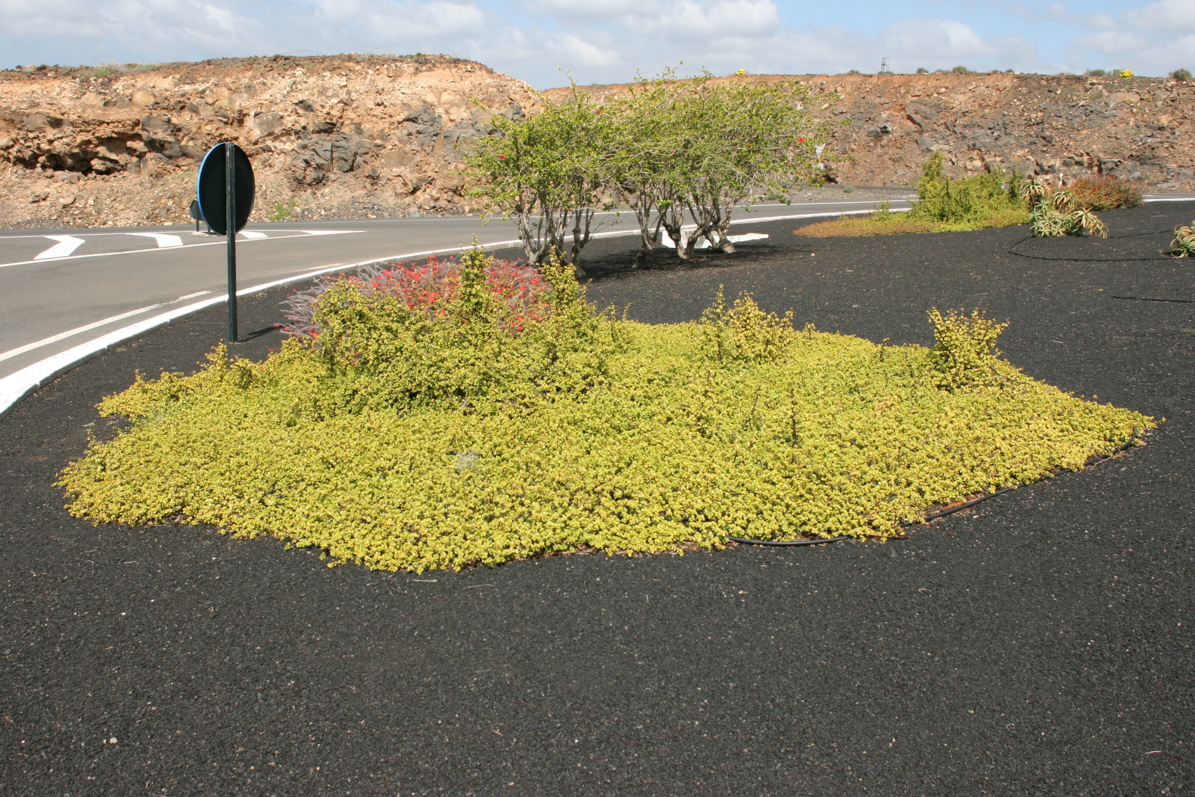 Awesome specimen of Portulacaria afra in (almost) natural shape with few erect stems and many trailing branches grown in the roundabout of LZ-2 and LZ-703 in Yaiza, Lanzarote, Canary Islands